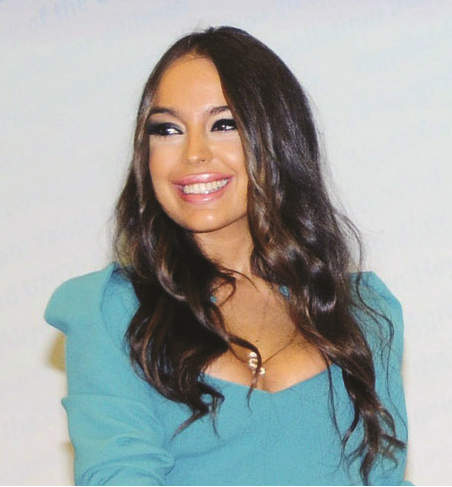 Leyla Aliyeva.